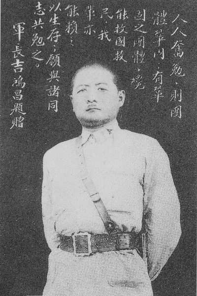 Ji Hongchang (1895－1934)